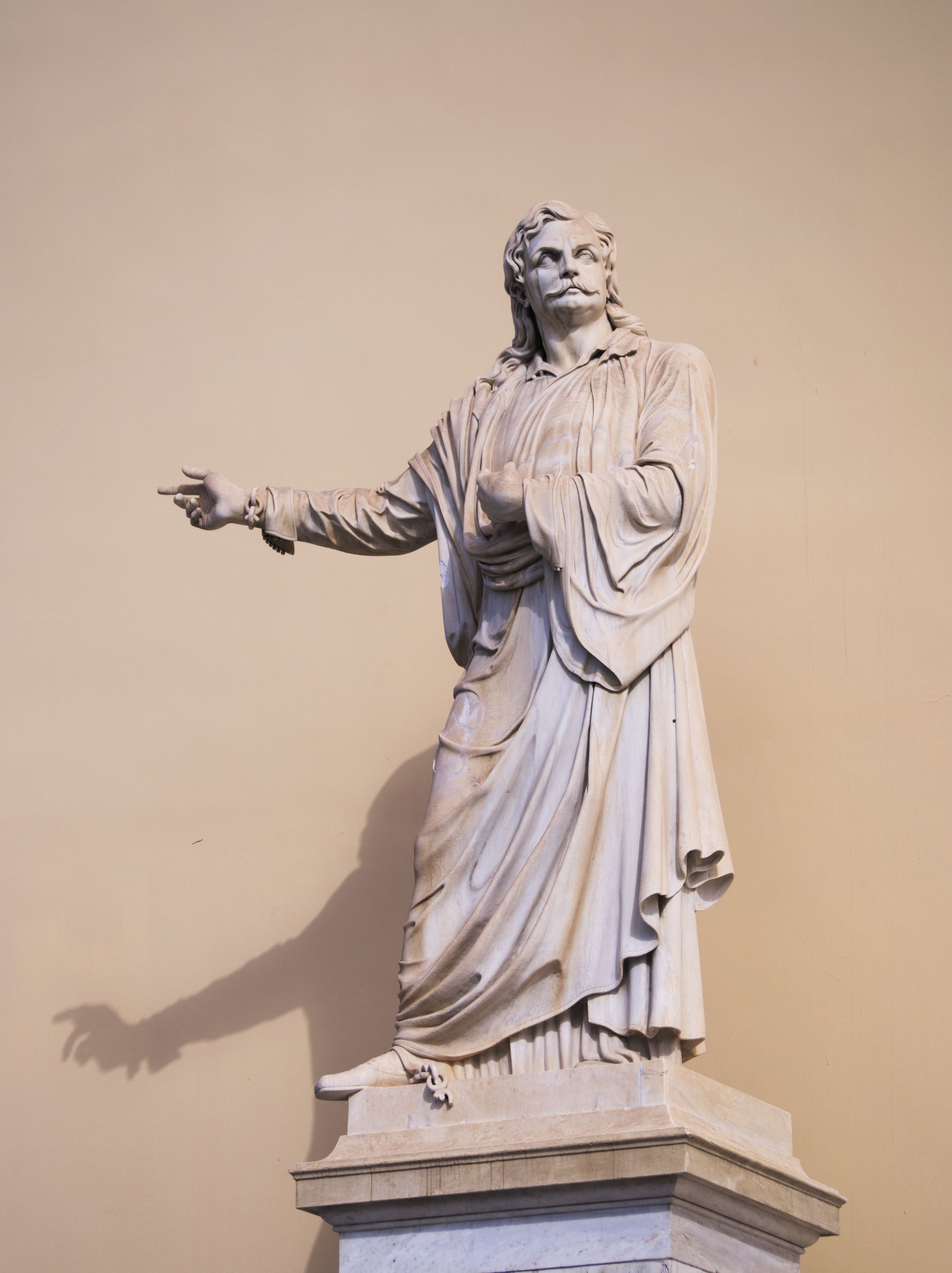 The statue of Rigas Feraios in front of the University of Athens.